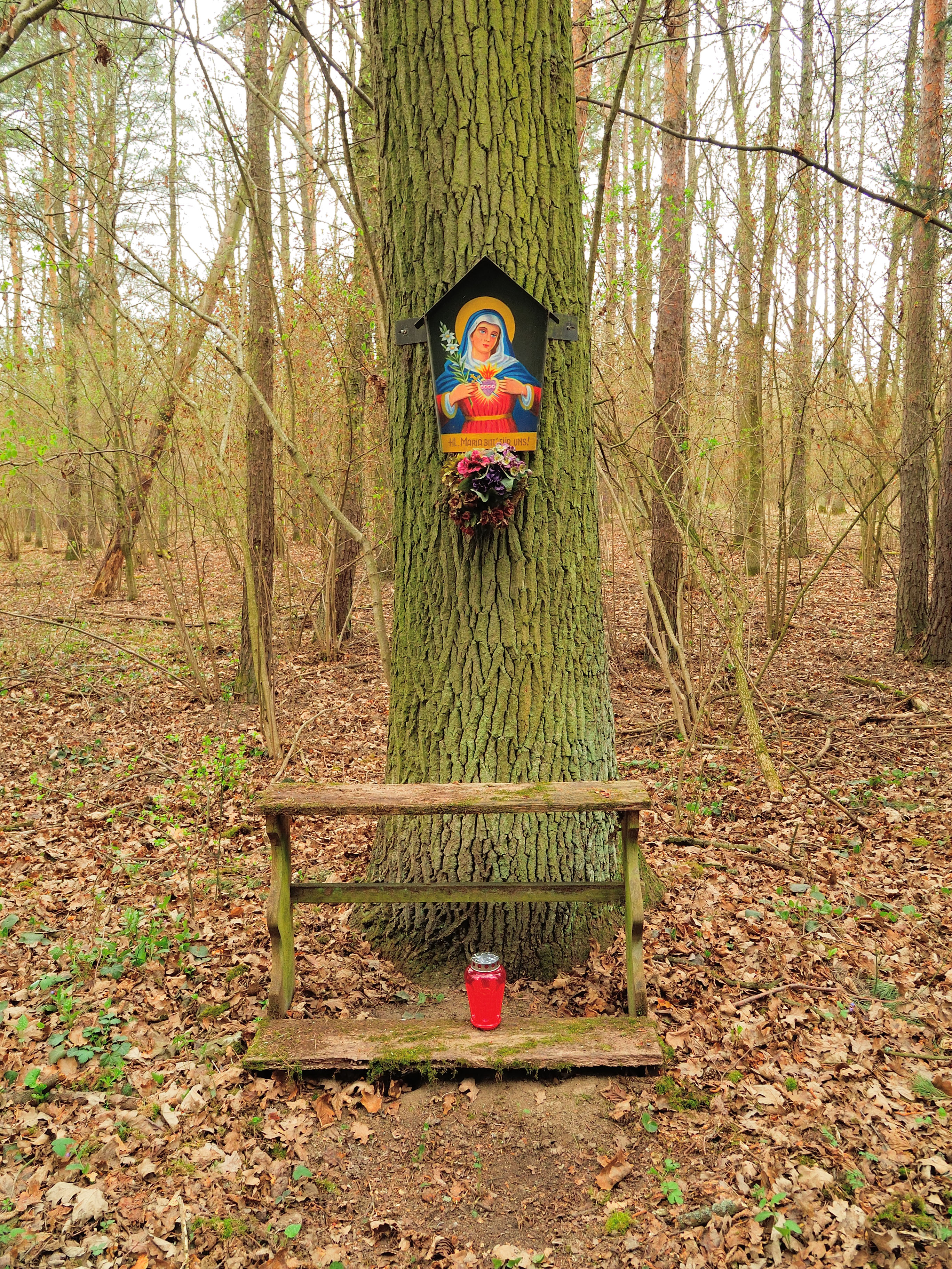 Tree shrine near Mistelbach, Lower Austria, Austria